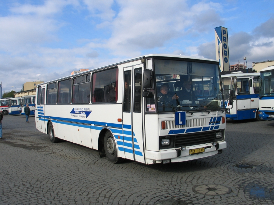 Karosa LC735 at Probo Trans Beroun areal, 2007-10-13